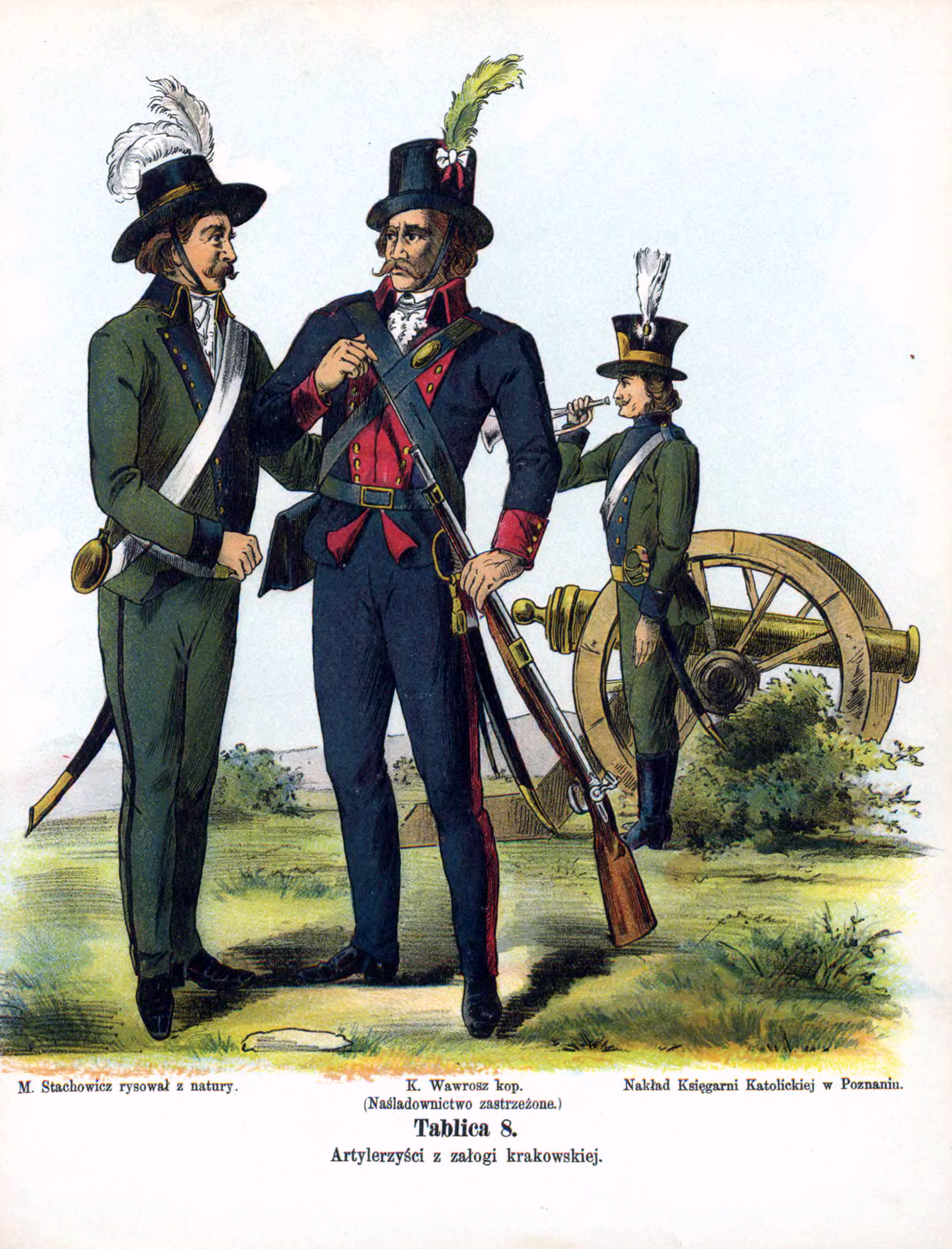 Artillerists of the Kraków garrison during Kościuszko Uprising